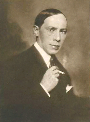 German actor and director Rudi Bach, photographed by Nicola Perscheid